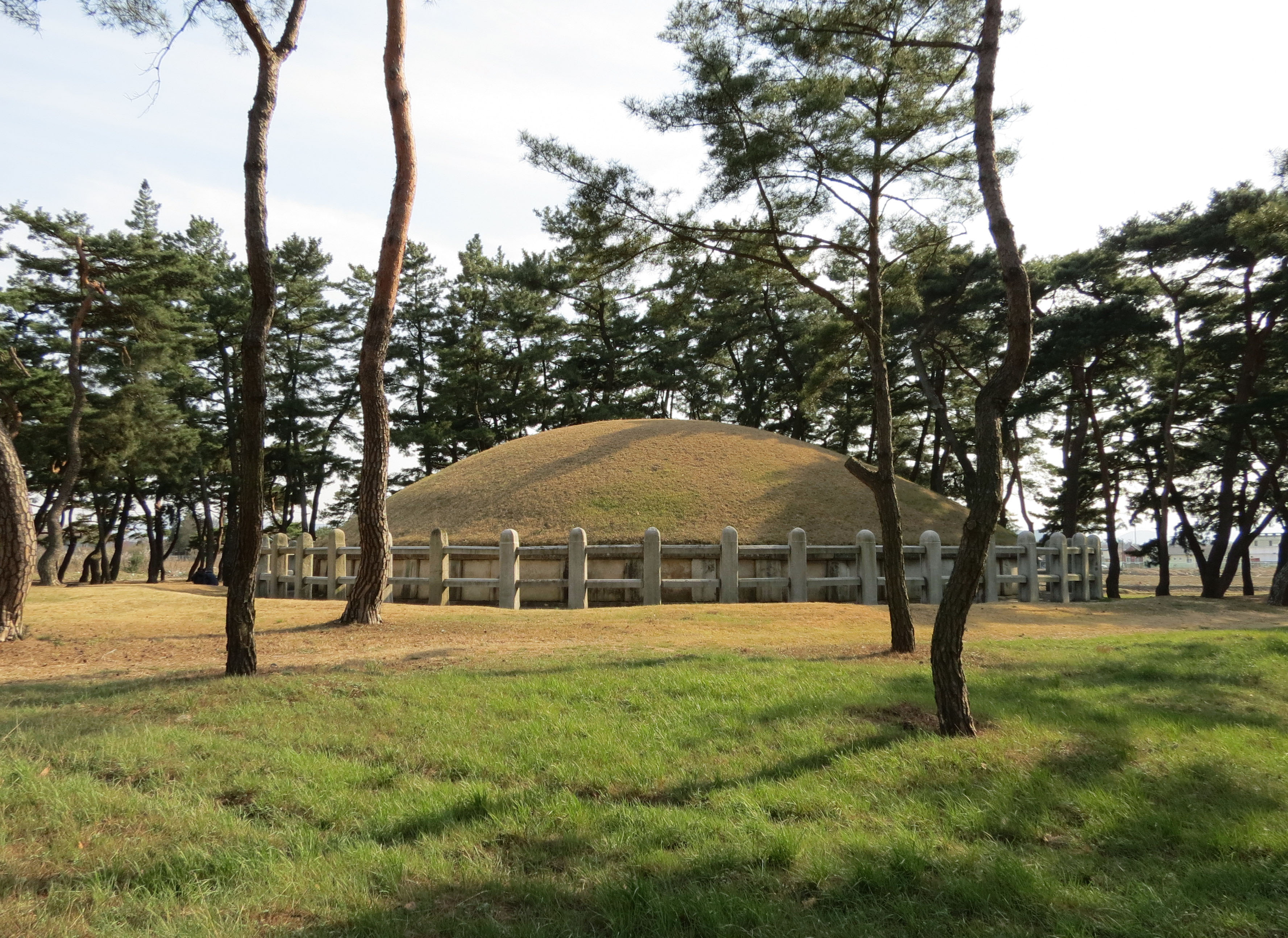 Royal tomb of King Heondeok of Silla located in Gyeongju, North Gyeongsang, South Korea